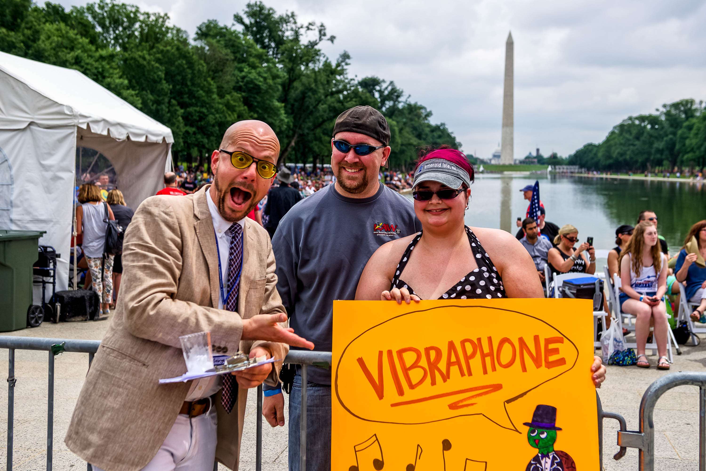 Fans greet musician George Hrab in front of the Lincoln Memorial reflecting pool in Washington, D.C. with the Washington Monument in the background during the 2016 Reason Rally.